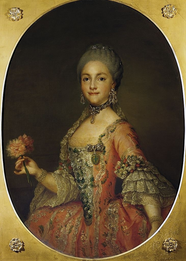 Portrait of Maria Luisa of Parma, Princess of Asturias